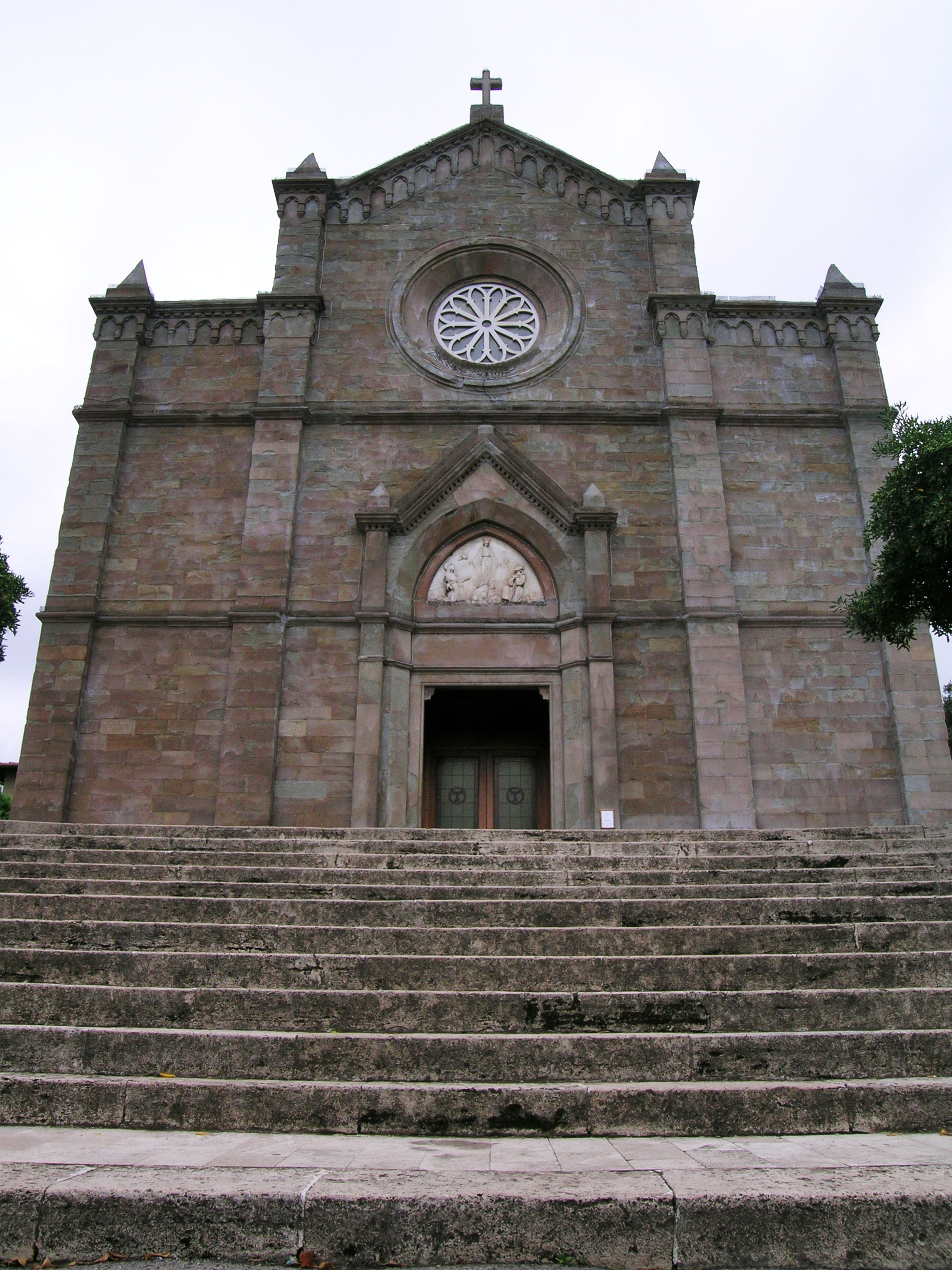 Piombino (LI). Immacolata Church with steps.